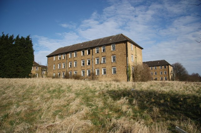 Officer's Mess Former Officer's Mess and accommodation at former RAF Binbrook, now sadly derelict and vandalised